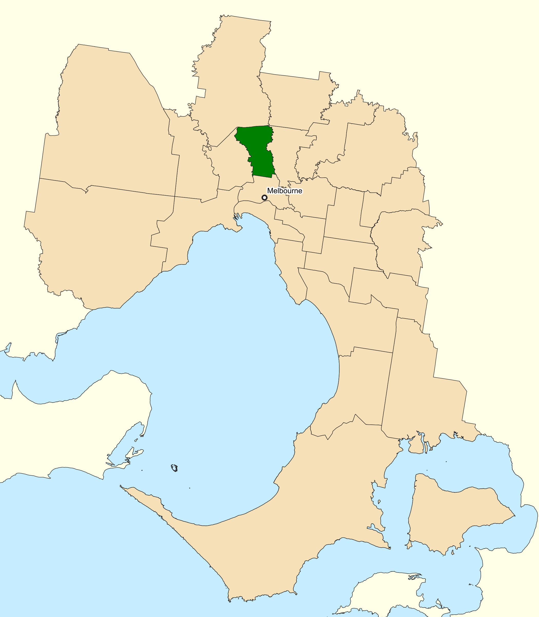 Location of the Australian federal electoral division of Wills (dark green) in Greater Melbourne, Victoria as of the 2019 Australian federal election. Incorporates or developed using Administrative Boundaries ©PSMA Australia Limited licensed by the Commonwealth of Australia under Creative Commons Attribution 4.0 International licence (CC BY 4.0).